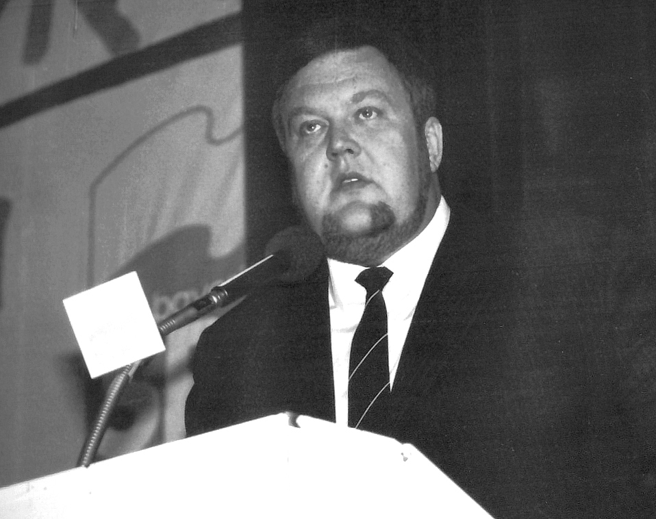 Karl-Heinz Hiersemann holding a speech at a rally of the German Social Democratic Party in Schweinfurt during the eighties.